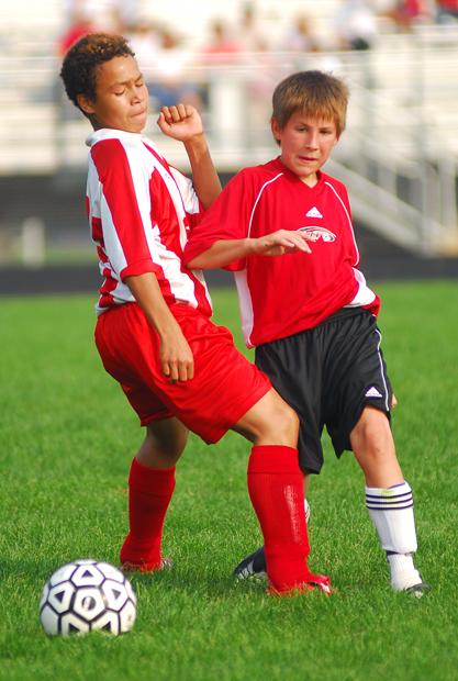 A Stanton Junior High soccer player elbows a Memorial Middle School opponent during the second half of a game at Theodore Roosevelt High School in Kent, Ohio on Sept. 11, 2006.